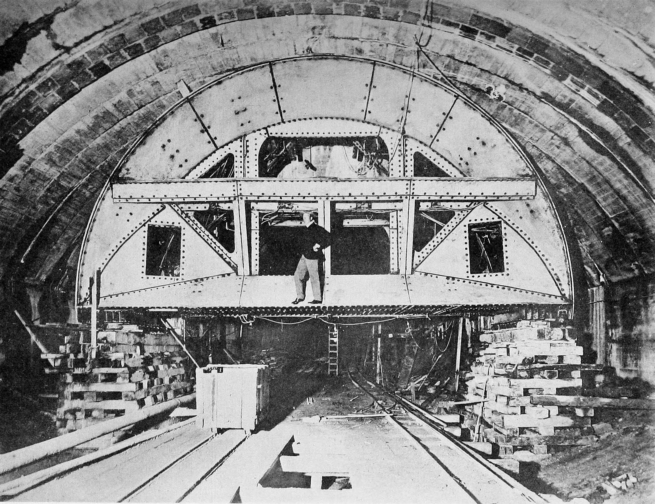 Front end of a tunneling shield inside the west end of Atlantic Avenue station in 1903. The shield was used to construct most of Section C, which ran from India Street to the east part of the station arch.